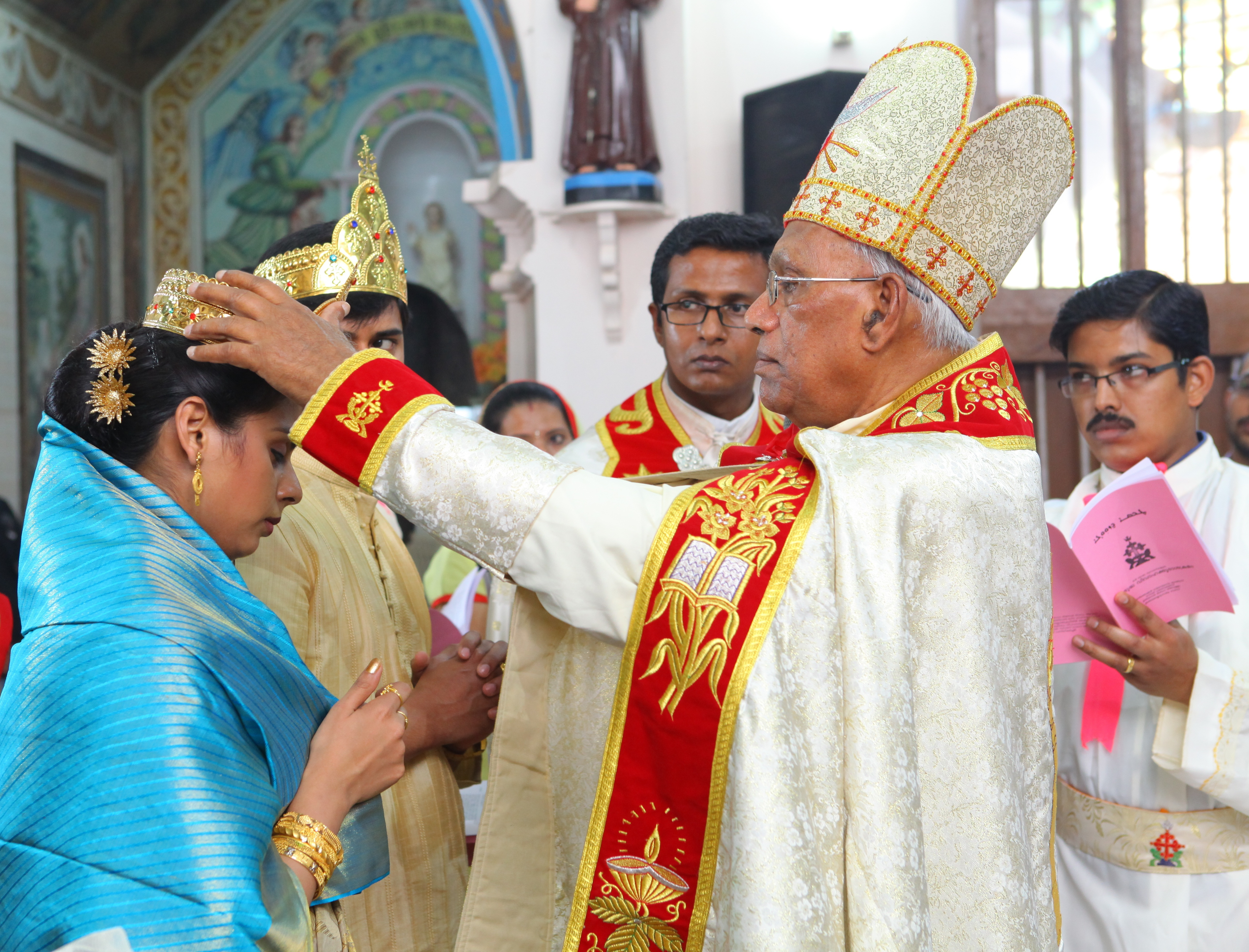 Crowning during Holy Matrimony in the Syro-Malabar Church. Main celebrant is bishop Mar Gregory Karotemprel.